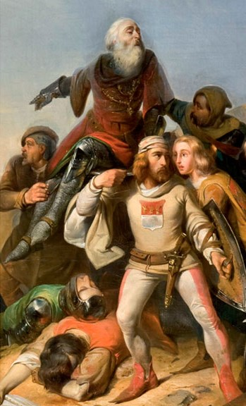 Battle of the Ulrepforte (detail_Painted by Gustave Buschmann & Edouard Hamman, Anvers 1841 Kölner Stadtmuseum